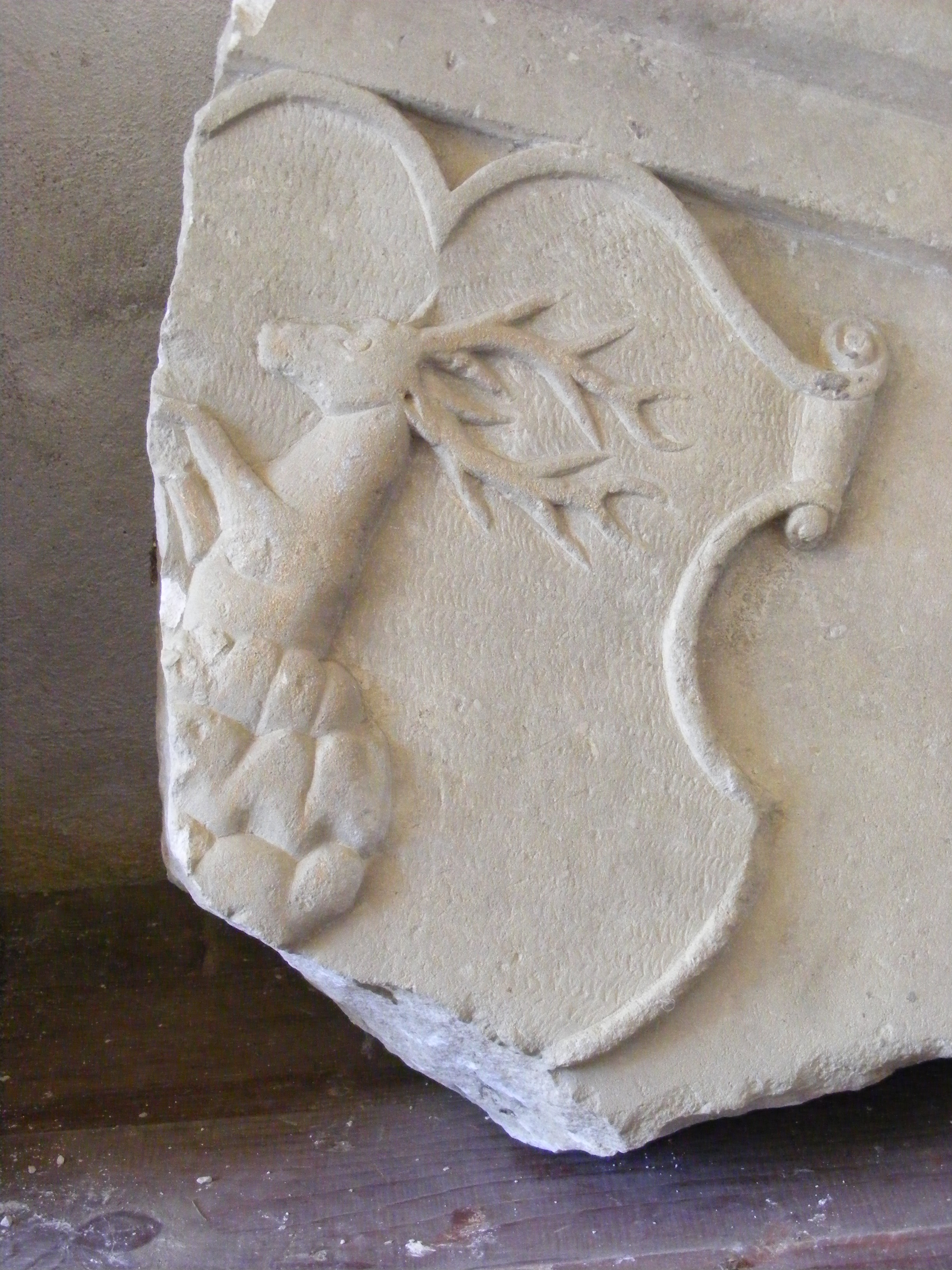 The emblem of the Lázár hungarian noble family.